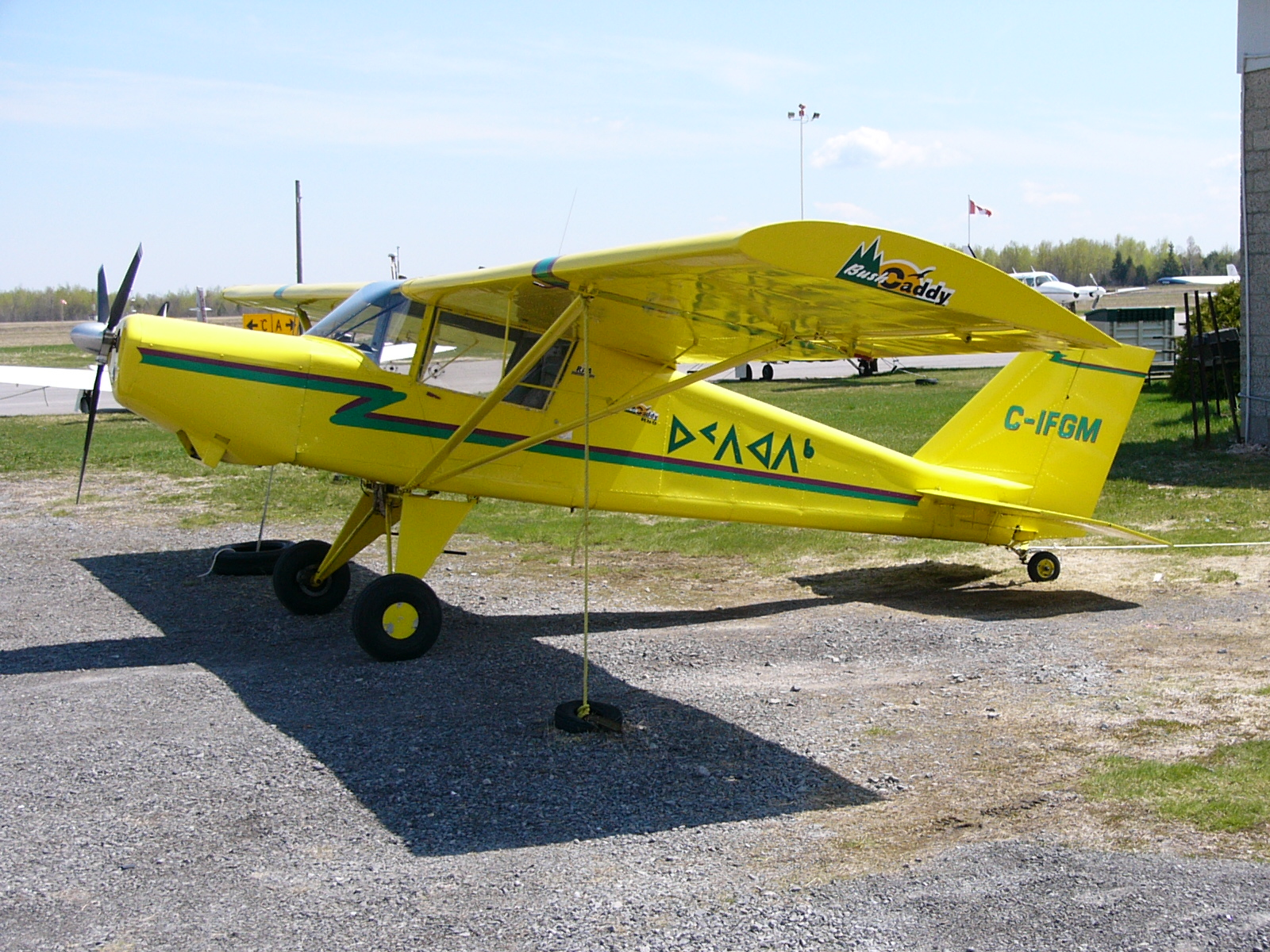 CLASS R-80 BushCaddy at Carp Airport, Ontario, Canada.